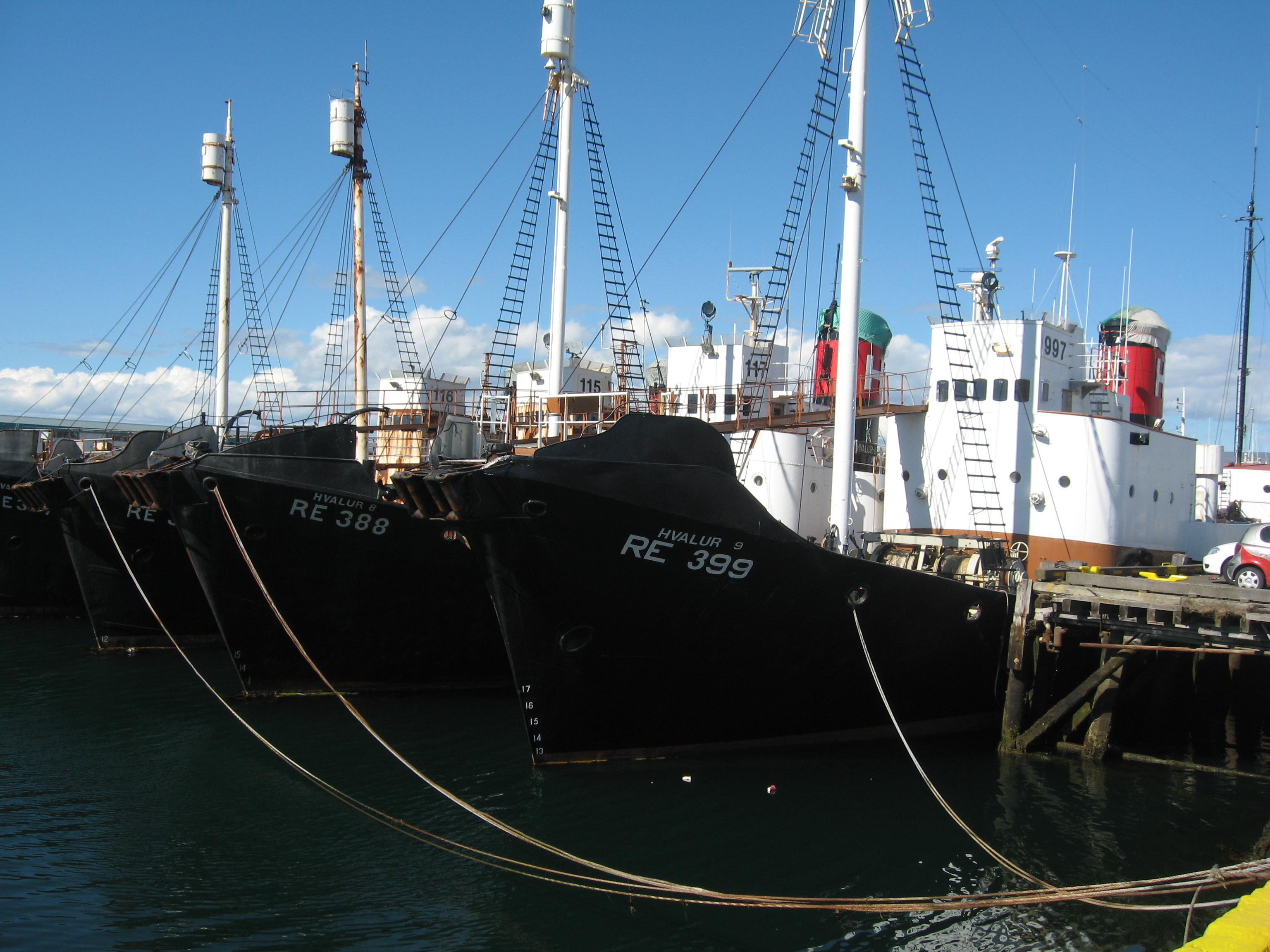 Whaling vessels in Reykjavík harbour, Iceland. After 14 years mothballed, Iceland's whaling fleet resumed scientific whaling in 2003, to international outcry but with strong domestic support, and has since restarted commercial whaling, in 2006. Picture taken by Wurzeller on 27 June 2008